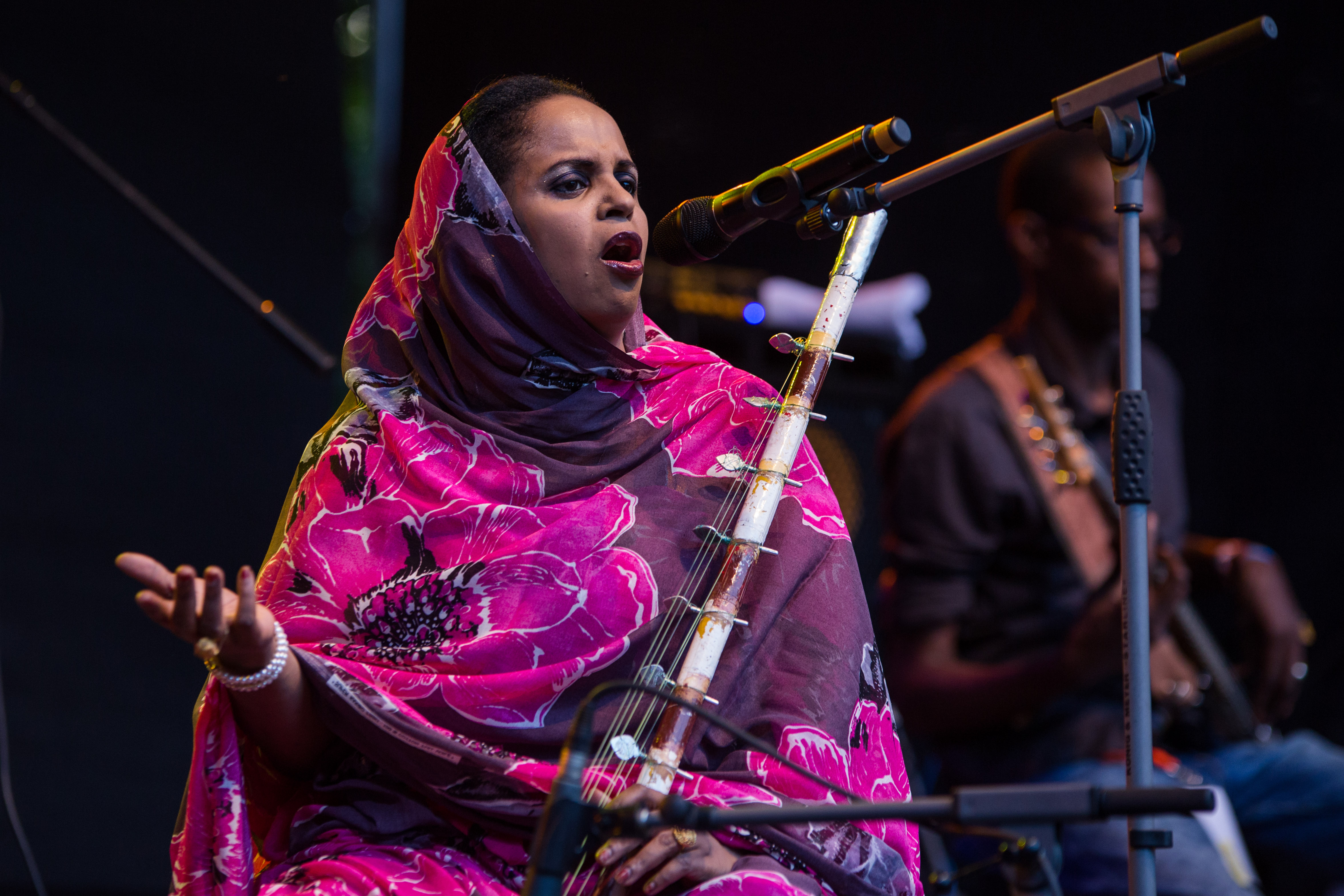 Noura Mint Seymali TTF.Rudolstadt 2015 Festivalsommer This photo was created with the support of donations to Wikimedia Deutschland in the context of the CPB project "Festival Summer".